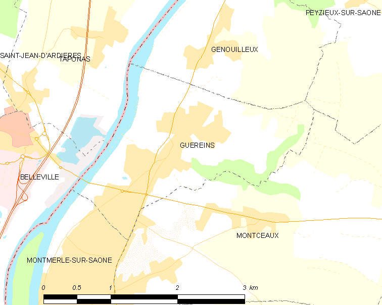 Map of French commune: Guéreins Map commune FR insee code 01183.png